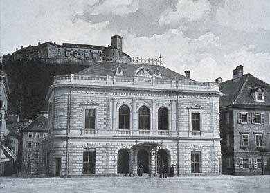 Drawing of the philharmonic in Laibach, Carniola, Austria (today Ljubljana, Slovenia).